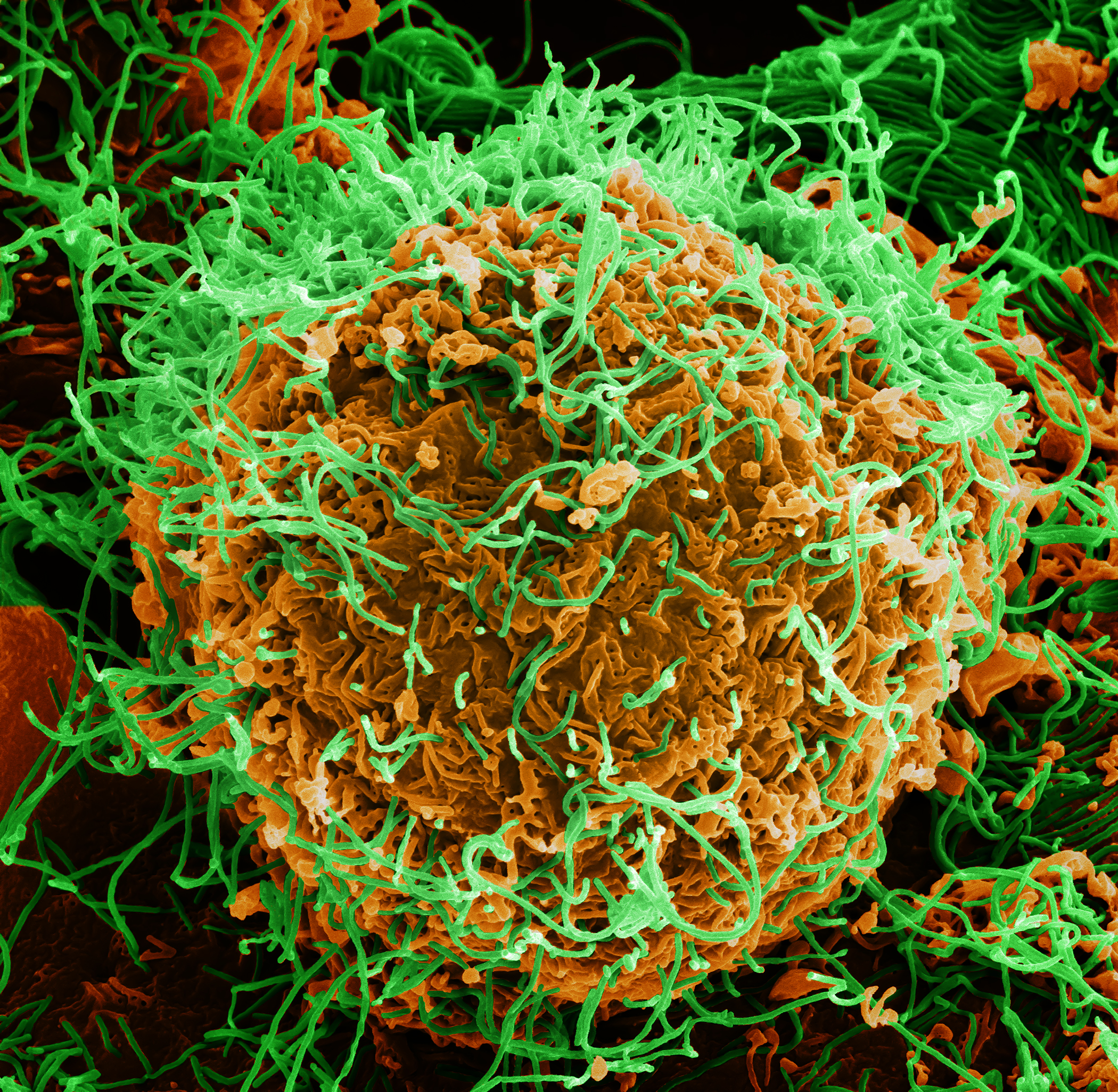 Colorized scanning electron micrograph of Ebola virus particles (green) both budding and attached to the surface of infected VERO E6 cells (orange). Image captured and color-enhanced at the NIAID Integrated Research Facility in Fort Detrick, Maryland. Credit: NIAID